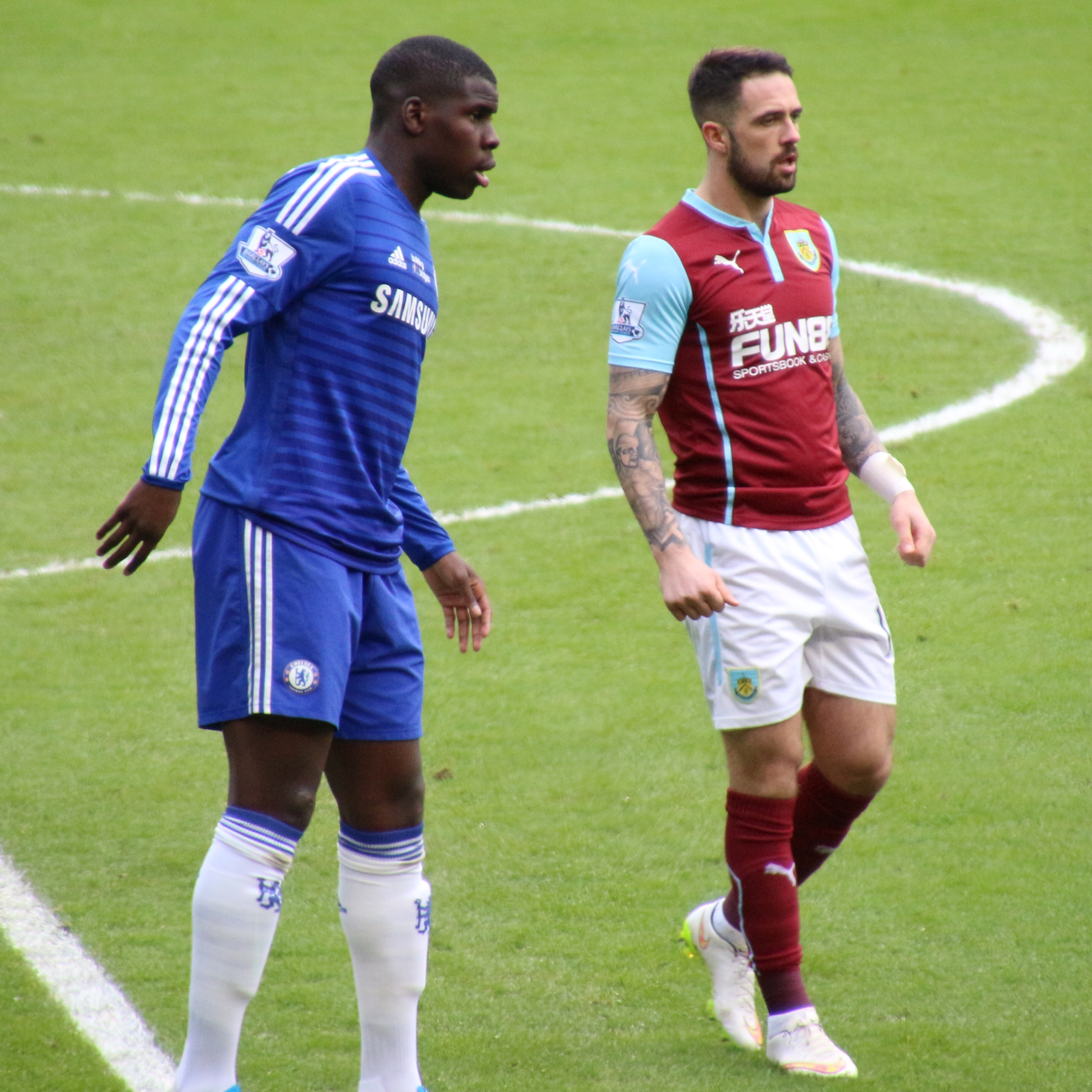 Chelsea 1 Burnley 1